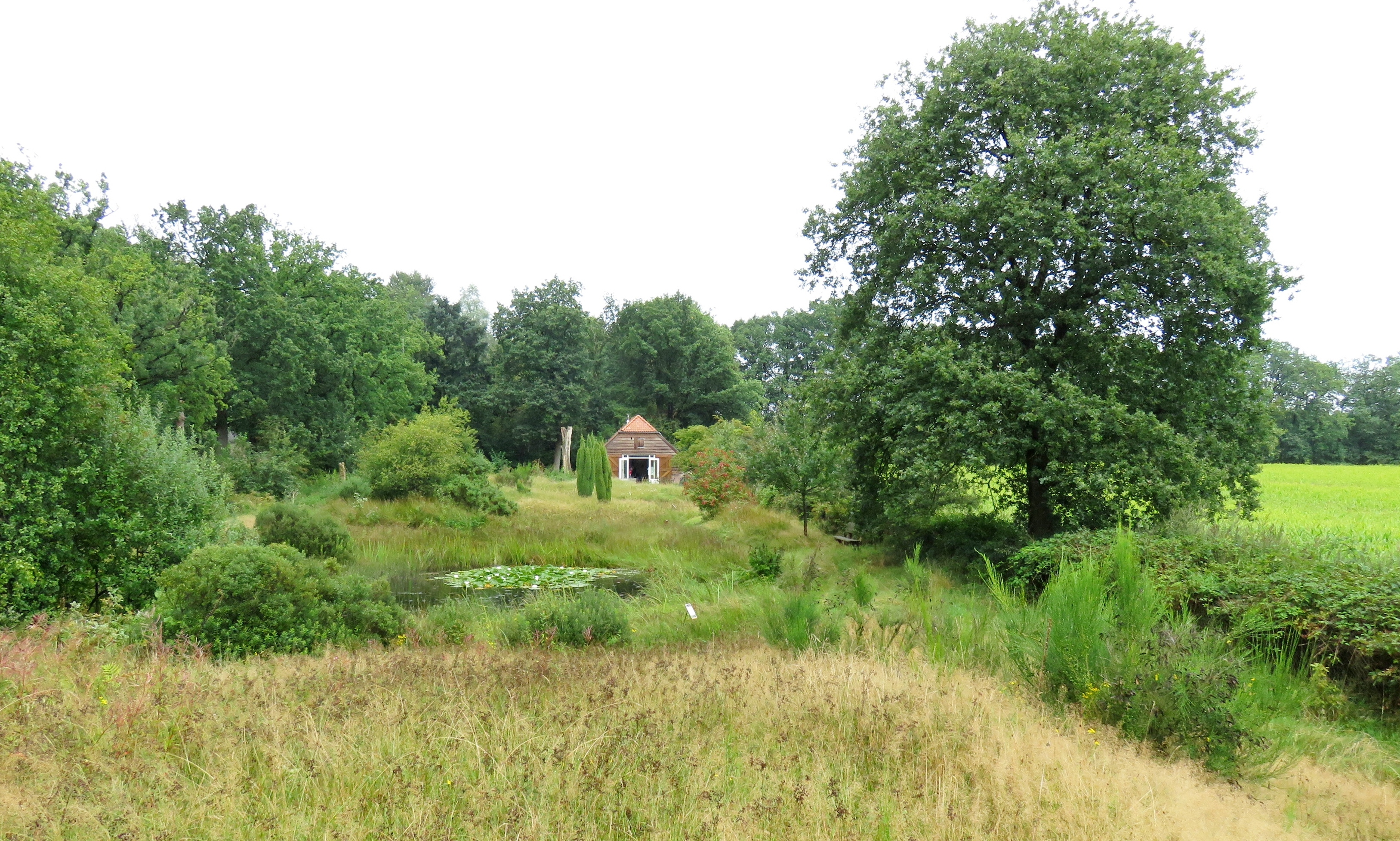 Sight from the hill towards the shed of the Londogarden (NL)